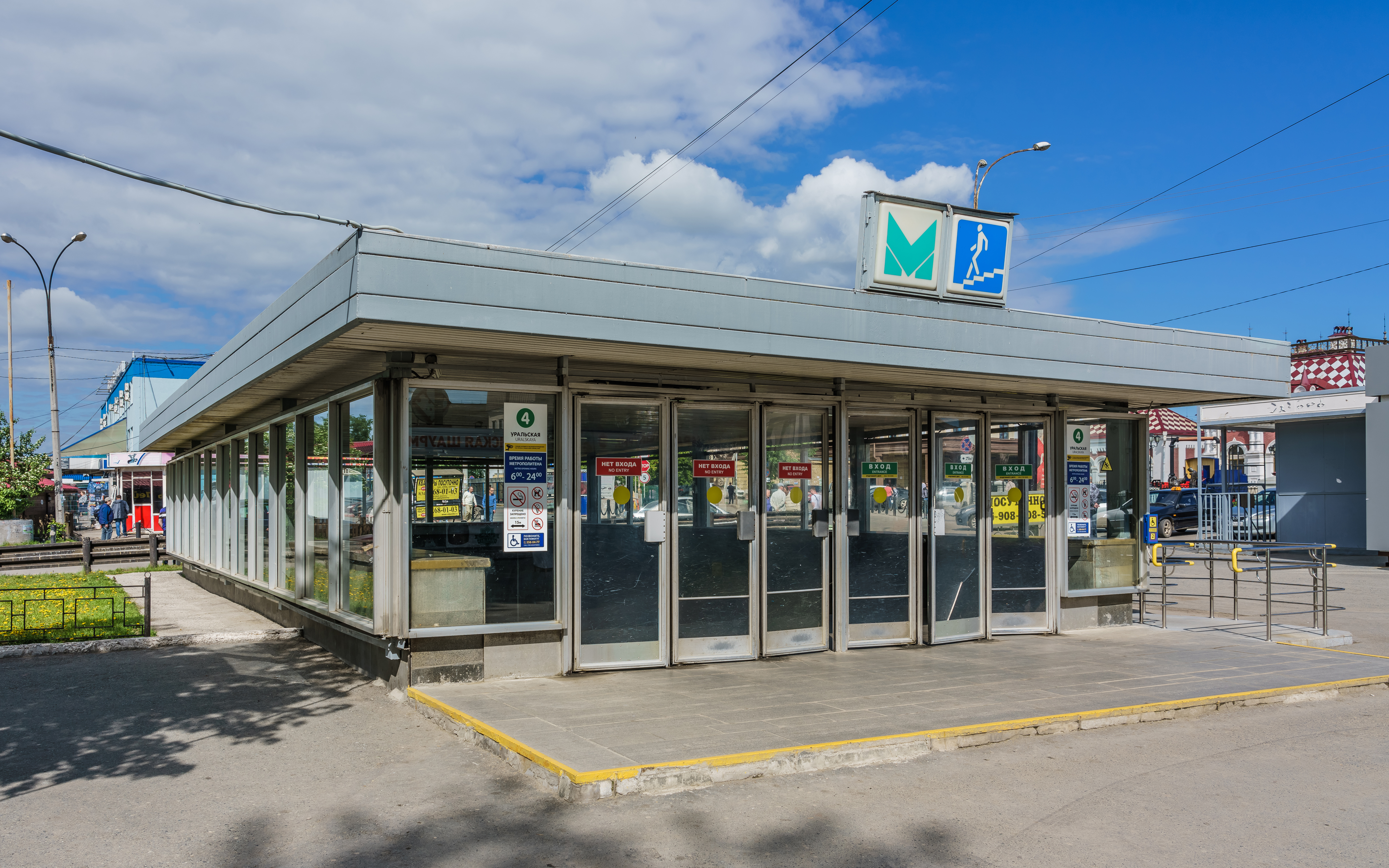 Uralskaya metro station in Ekaterinburg, Russia: entrance next to Ekb-Passazhirsky railway station